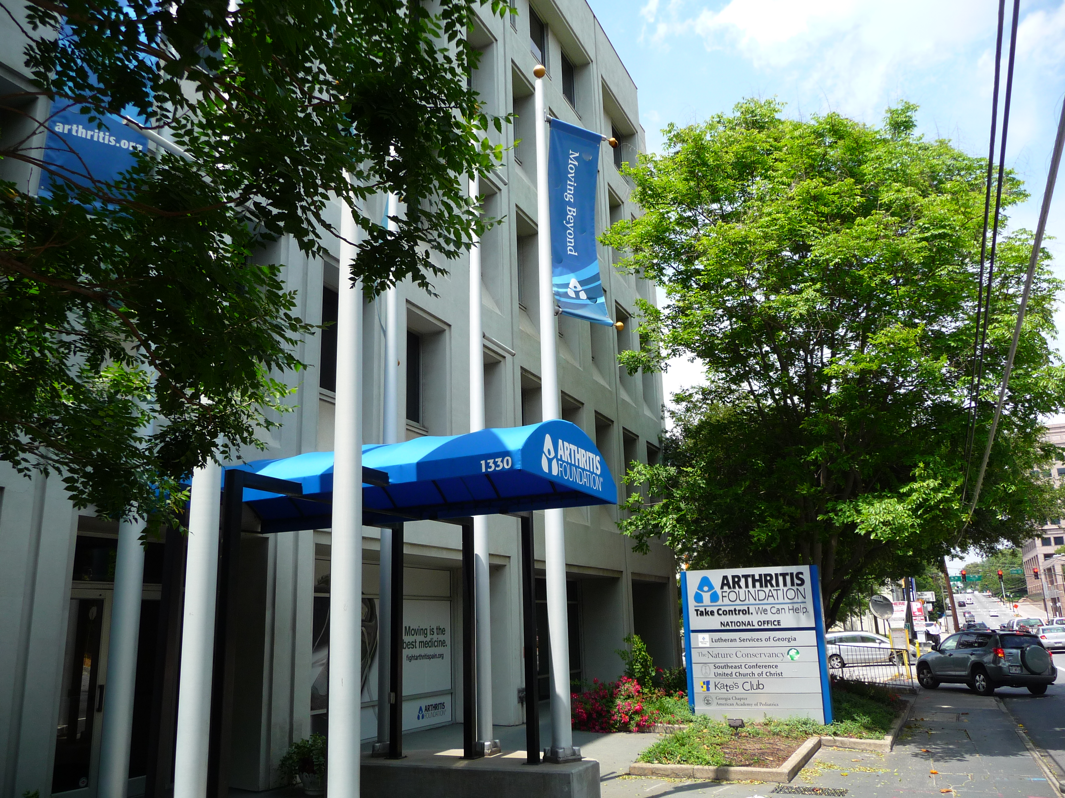 Arthritis Foundation building